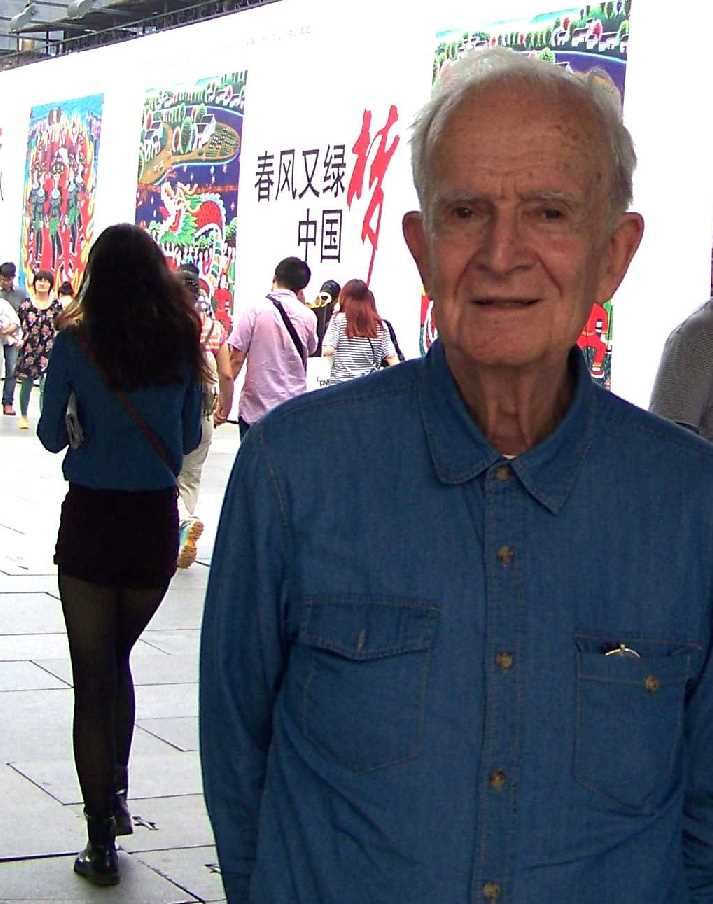 Peruvian Sinologist, Writer and Actor Guillermo Dañino in Xidan Street ob Beijing, China